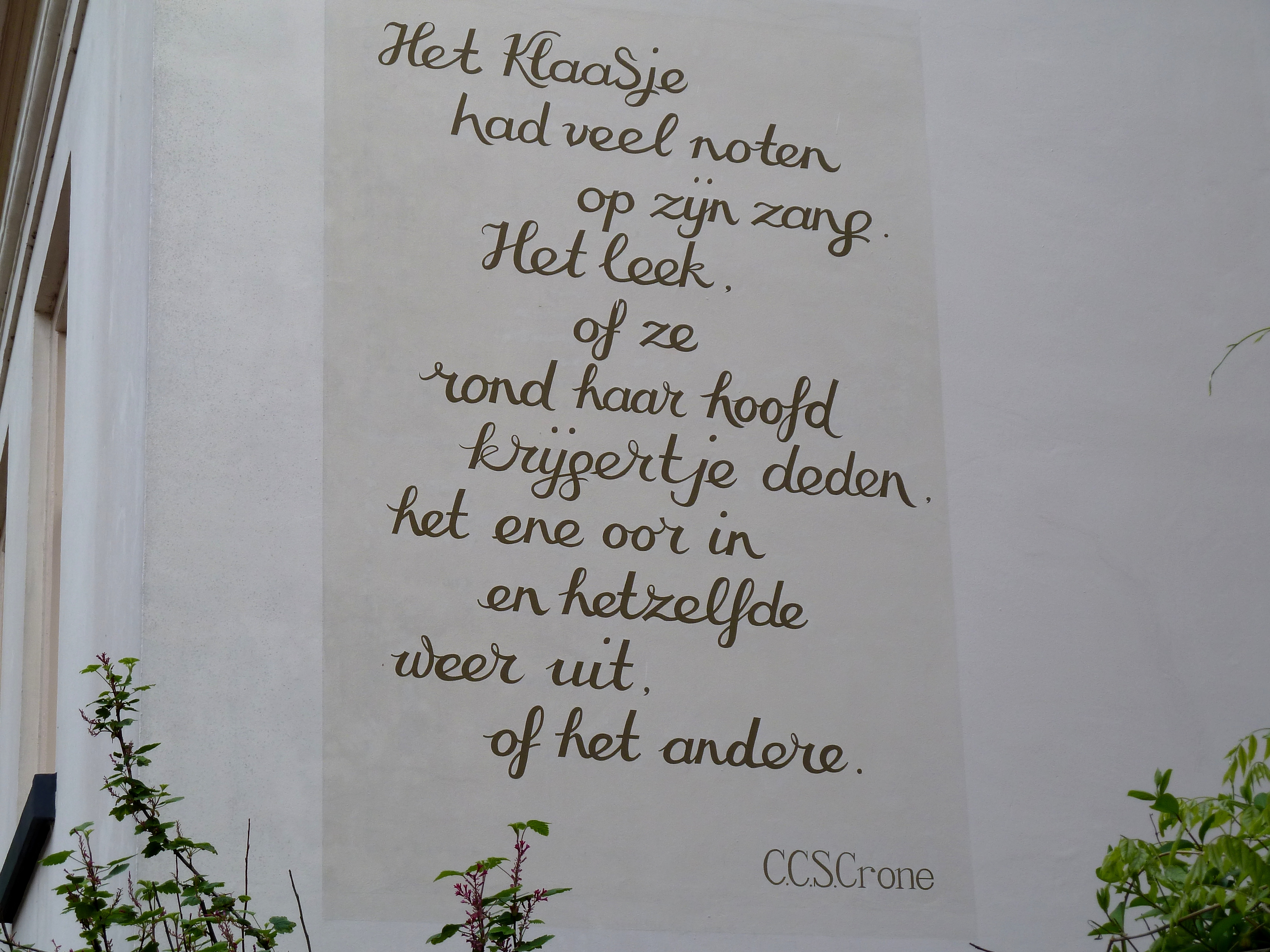 Mural in Nicolaasdwarsstraat, Utrecht, NL. Poem by C.C.S. Crone.